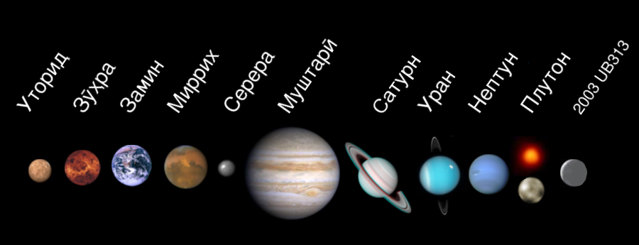 Created by me from Image:Sistema Solar 12 planetas.png